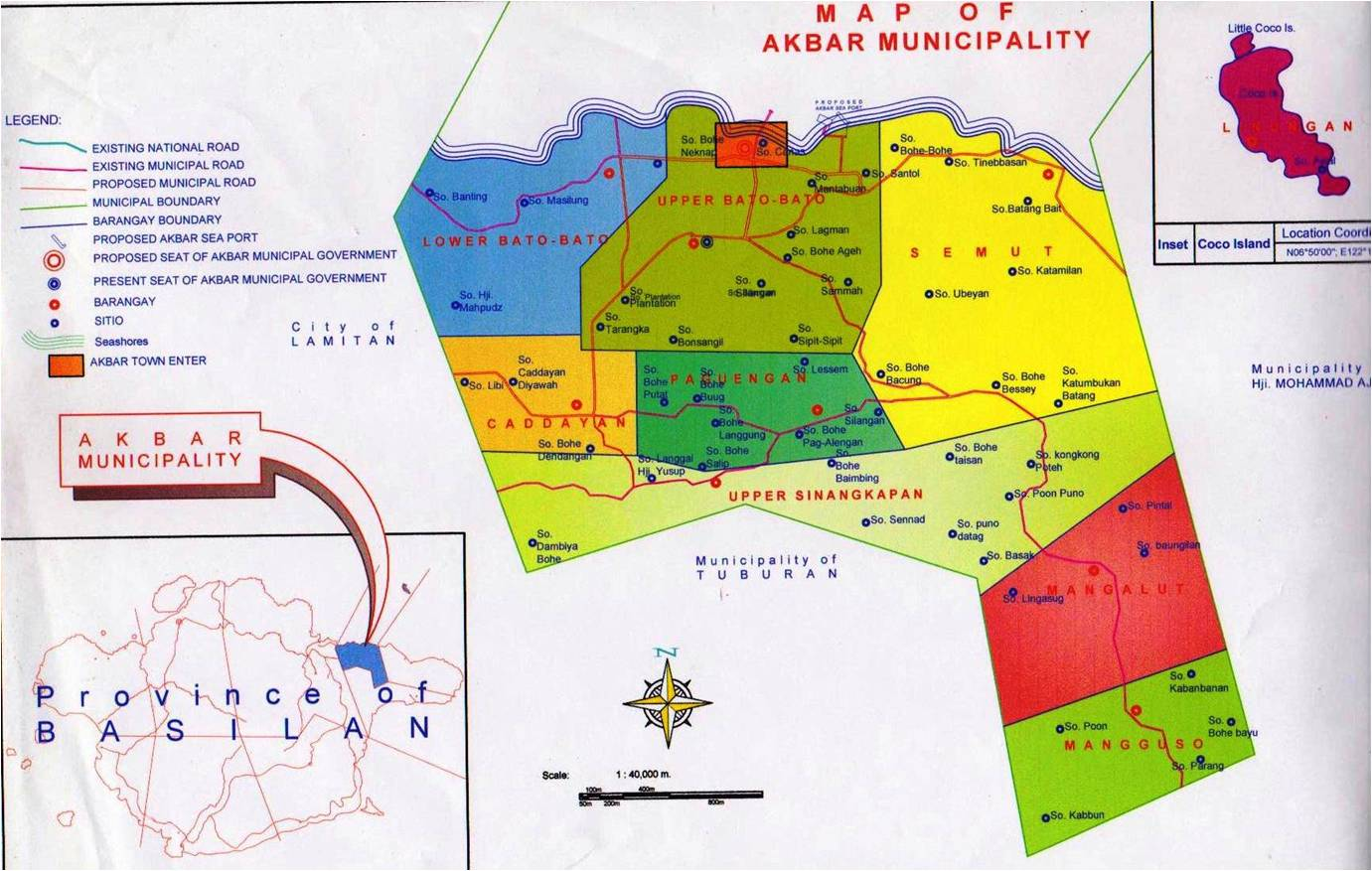 this map shown the 9 barangay with color coding